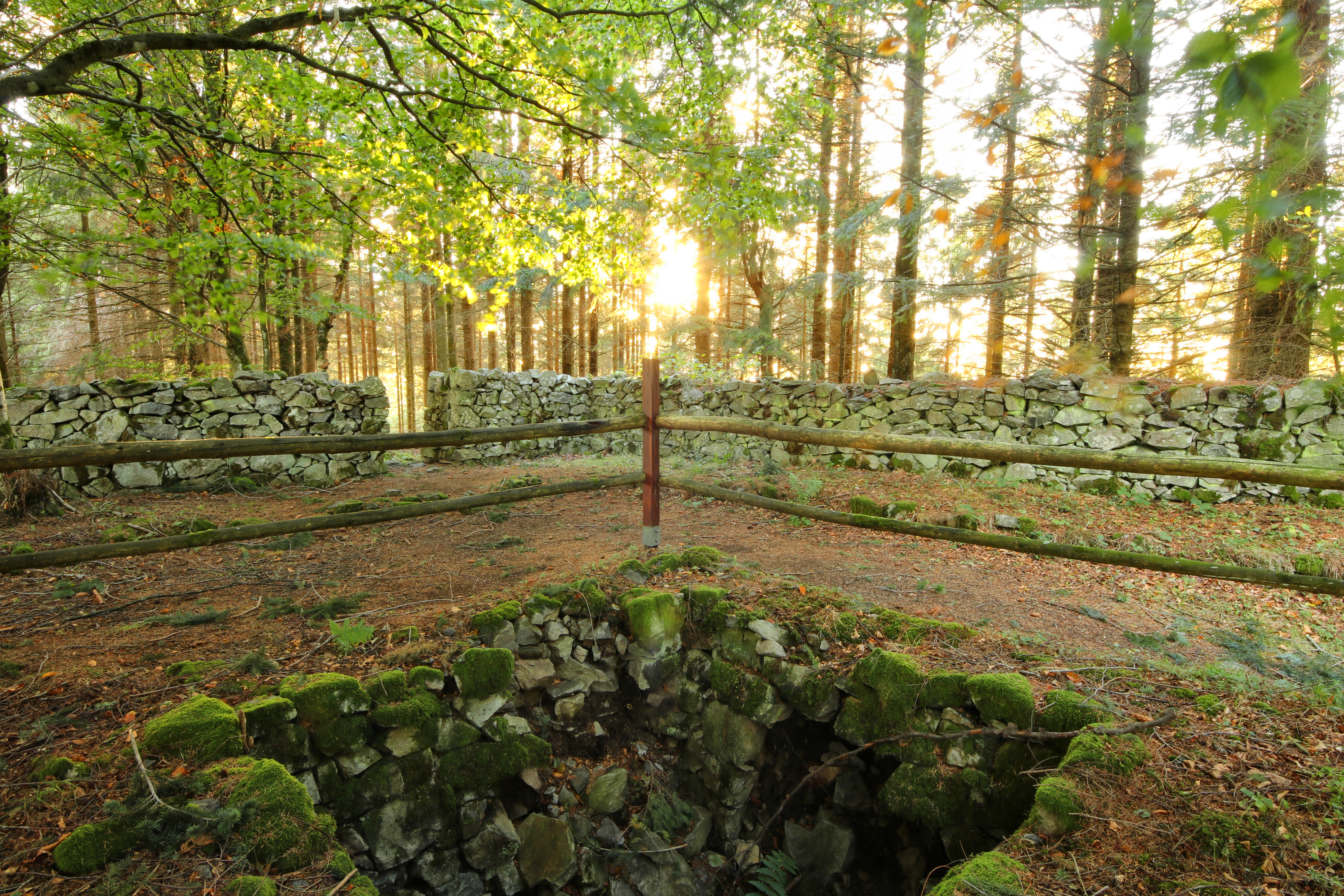 17th/18th century entrenchment at the Höchst between Horniskopf and Scheibeneck near Oberprechtal